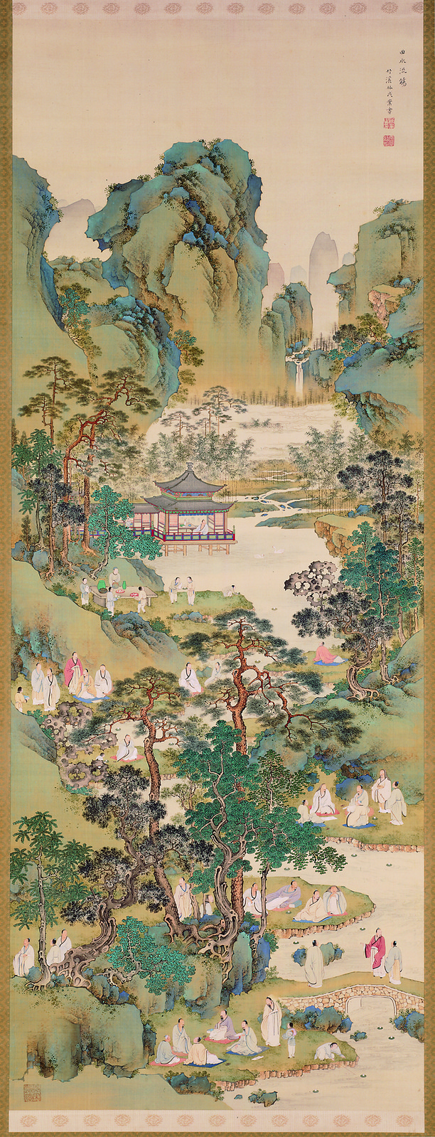 Poetry Gathering at the Orchid Pavilion, by Nakabayashi Chikkei. Ink, color and gofun on silk.